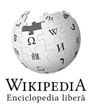 Wikipedia logo 2.0